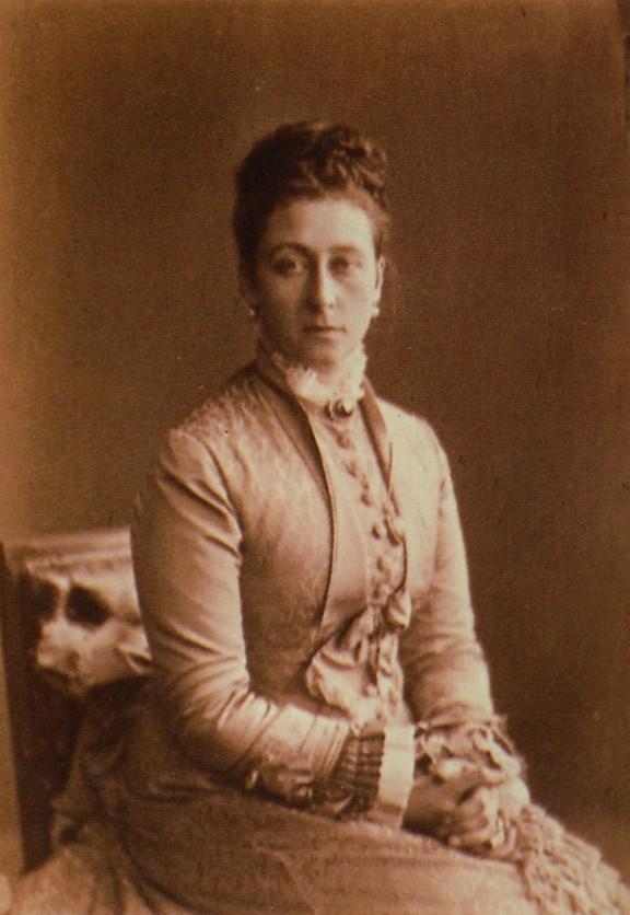 Portrait of the Grand Duchess Alice of Hesse-Darmstadt, born Princess Alice of the United Kingdom (1843-1878)